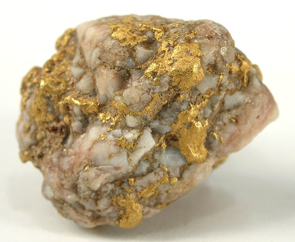 Gold, Quartz Locality: Dos Cabezas placers, Dos Cabezas, Dos Cabezas (Two Heads) District, Dos Cabezas Mts, Cochise County, Arizona, USA (Locality at ) Size: 3.2 x 2.4 x 2.1 cm. From the collection of longtime Bisbee mineral collector and rock shop owner Chuck Youngblood, this is a rare Arizona nugget. It was sold by his estate, from the shop and collection material he left behind, and the location was attributed from his collection catalogue at that time. One presumes it came to his store from a local prospector. Weighs 38 grams.